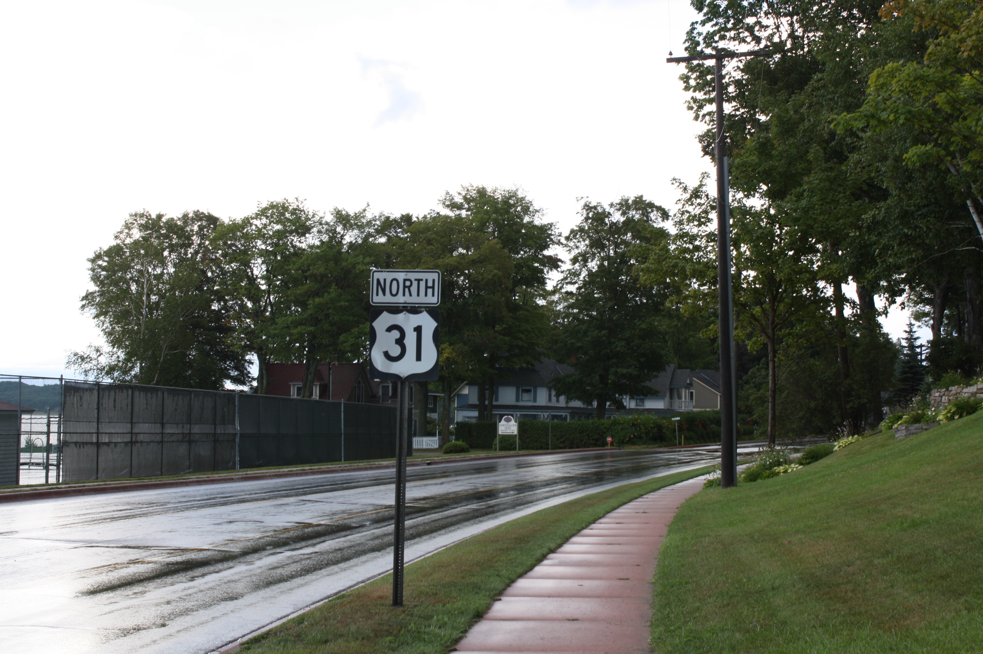 Looking north at a sign for U.S. Route 31 in Bay View, Michigan].